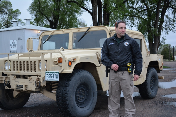 Rangers called out to assist local PD with unsanctioned event